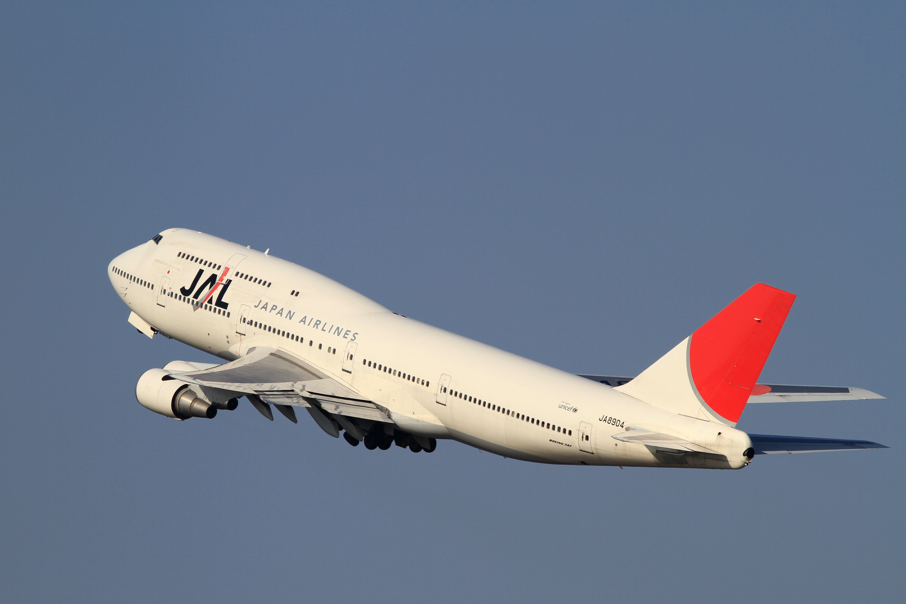 Tokyo International Airport, Boeing 747-446D, c/n:26348, Japan Airlines